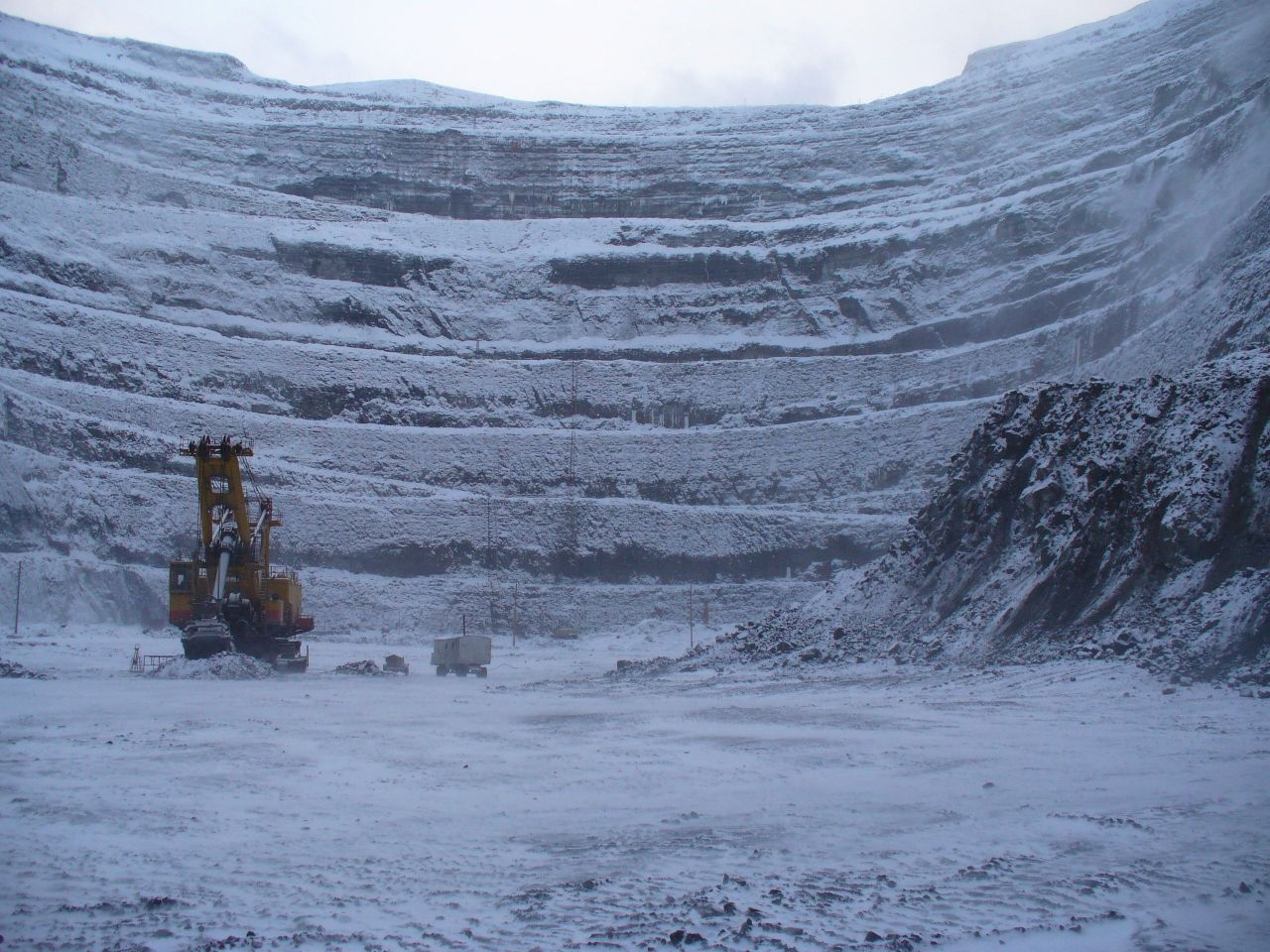 Udachnaya pipe, on cross-road